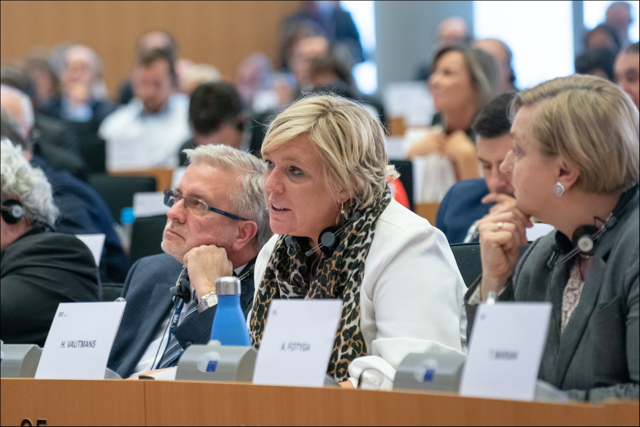 Before the European Parliament can vote the new European Commission led by Ursula von der Leyen into office, parliamentary committees will assess the suitability of commissioners-designate. On 23-26 May, more than 200,000,000 people in 28 EU countries went to the polls to elect members of the European Parliament, giving them a strong democratic mandate, including voting into office the new European Commission and examining the competencies and abilities of its commissioners-designate. Elected members of the European Parliament will also listen to their ideas and will assess their willingness to take concrete actions on the issues that Europeans care about. Each candidate commissioner is invited for a live-streamed, three-hour hearing in front of the committee or committees responsible for their proposed portfolio. The hearings will take place between Monday 30 September and Tuesday 8 October. This photo is free to use under Creative Commons license CC-BY-4.0 and must be credited: "CC-BY-4.0: © European Union 2019 – Source: EP". No model release form if applicable. For bigger HR files please contact: webcom-flickr(AT)